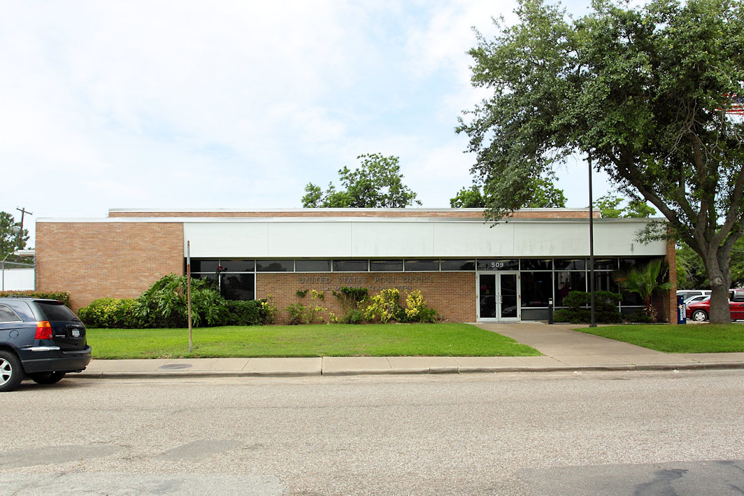 Post Office. La Marque, Texas, USA - 77568